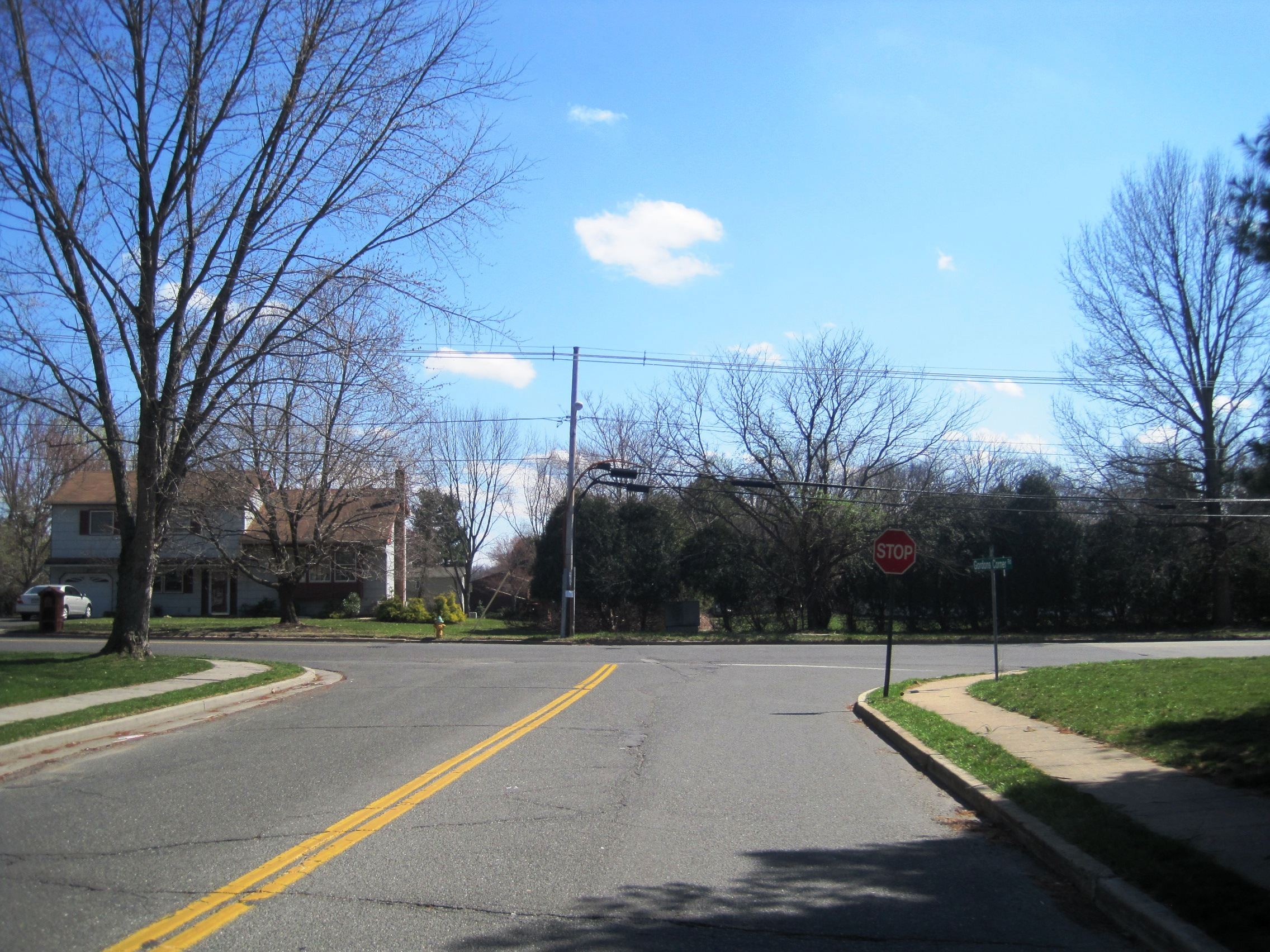 Photo of Claytons Corner, New Jersey, an unincorporated community within Marlboro Township. Photo taken from the end of Church Road at Gordons Corner Road.